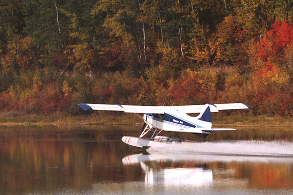 DeHavilland Beaver taking off at the Snye in Fort McMurray, Alberta. Author: Regional Municipality of Wood Buffalo.